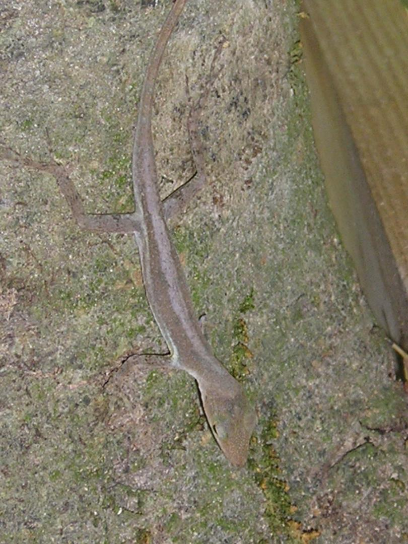 Anole Lizard